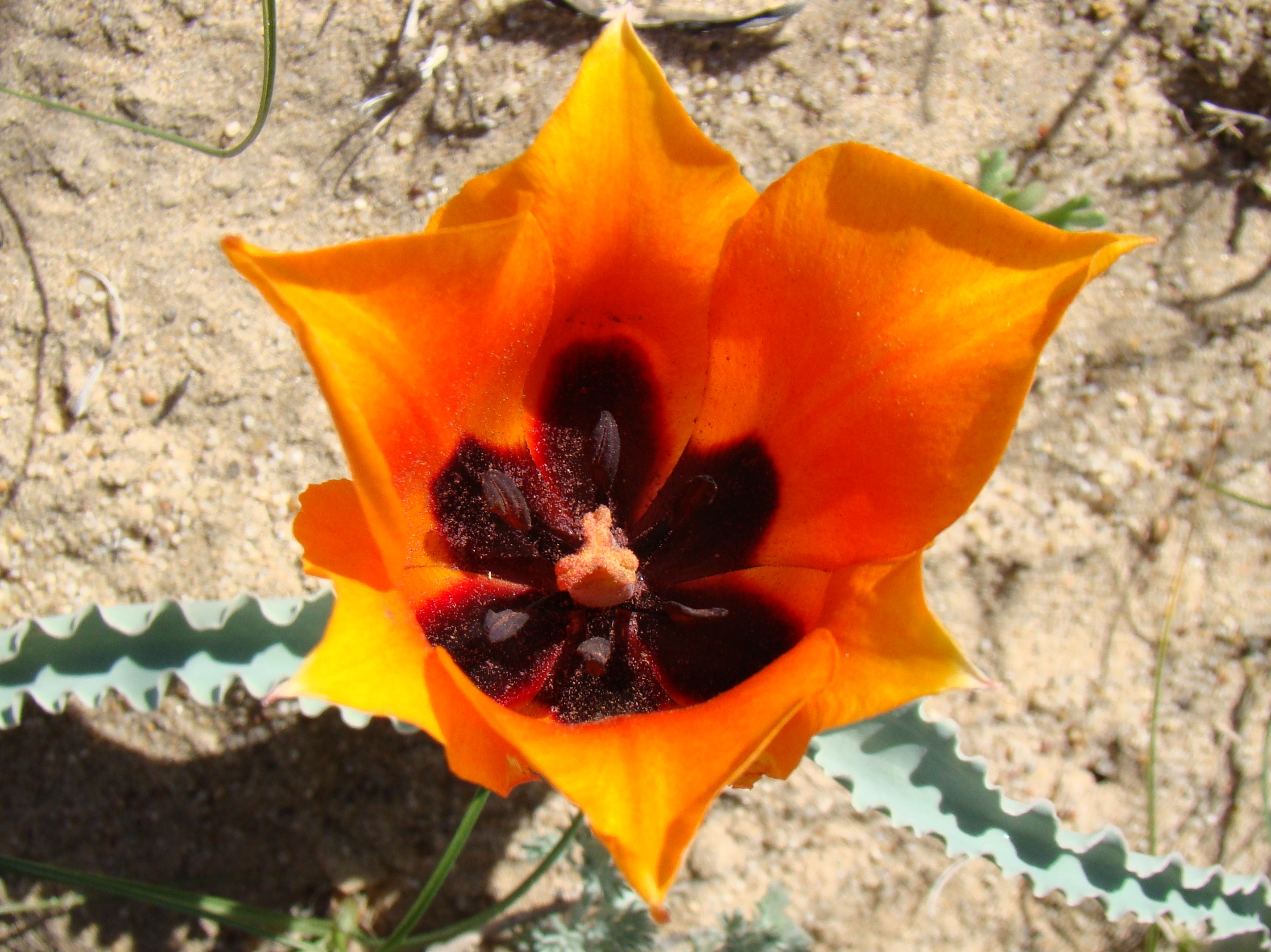 Tulipa borszczowii. Endemic plant of Aral see basin. Baikonur-town, Kazakhstan.